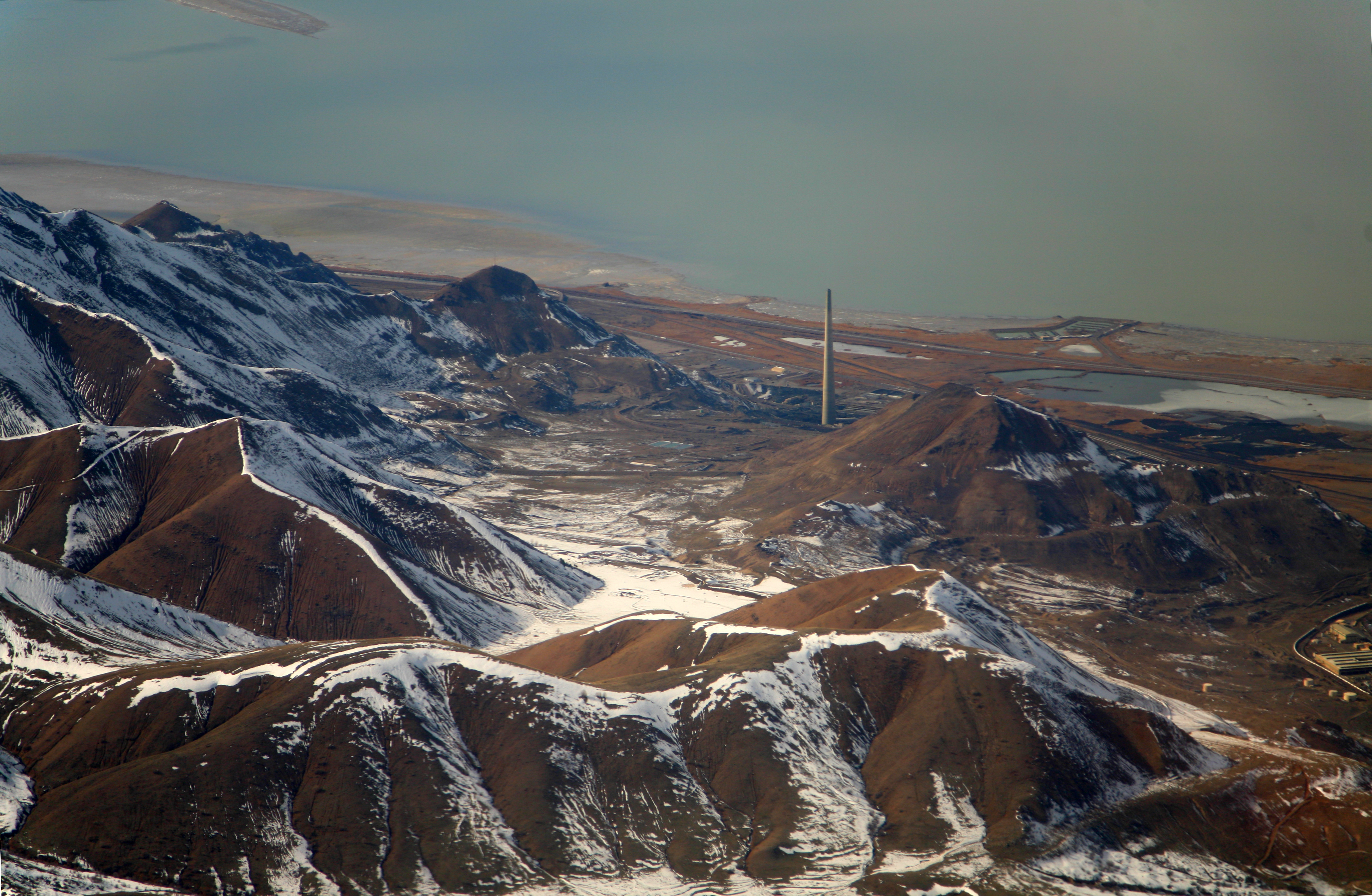 The Kennecott Utah Copper facility at the north end of the Oquirrh Mountains and the south end of Great Salt Lake, featuring the 1215-foot tall Garfield Smelter Stack.